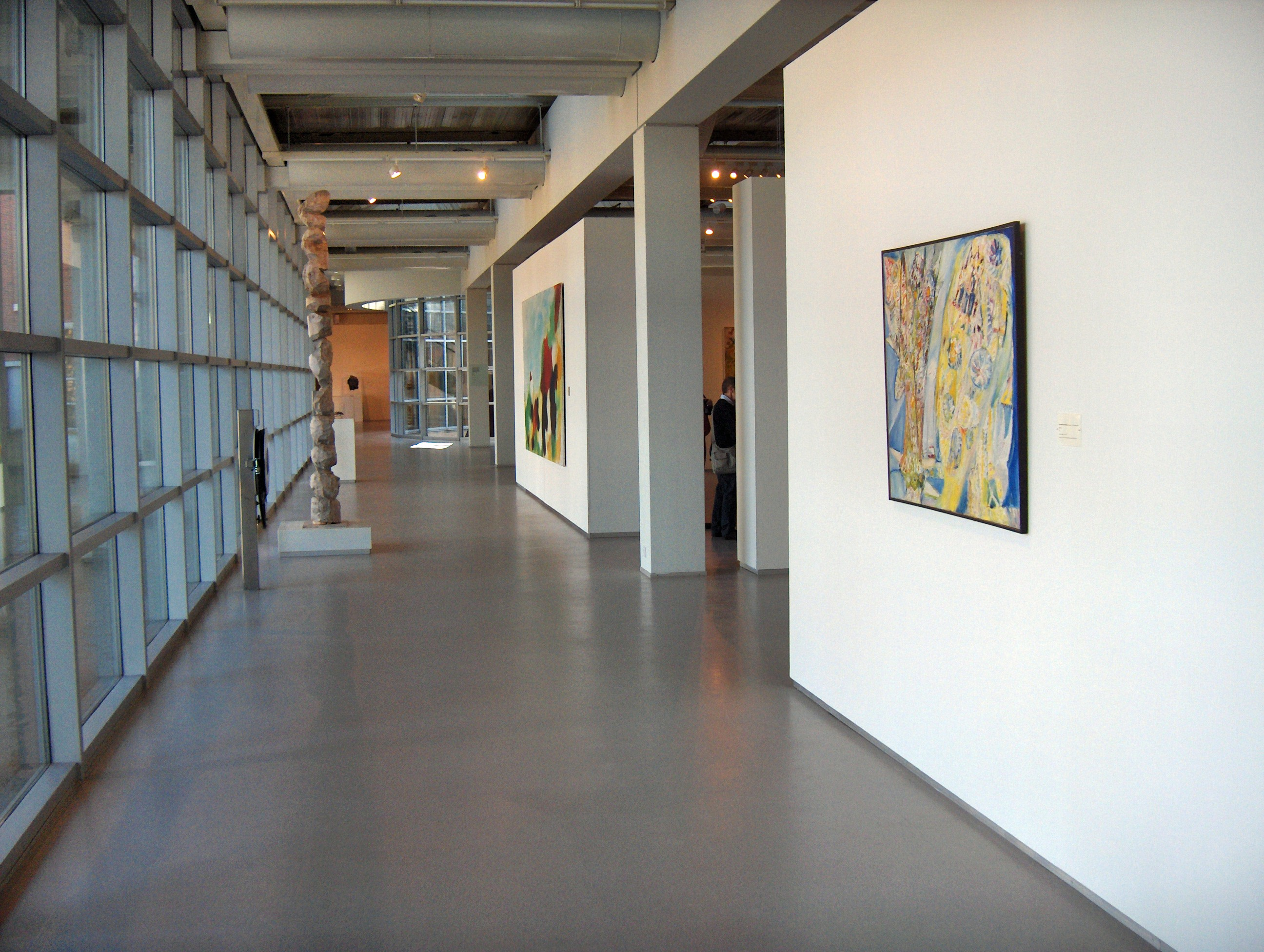 View inside the Cobra Museum voor Moderne Kunst, Amstelveen, the Netherlands